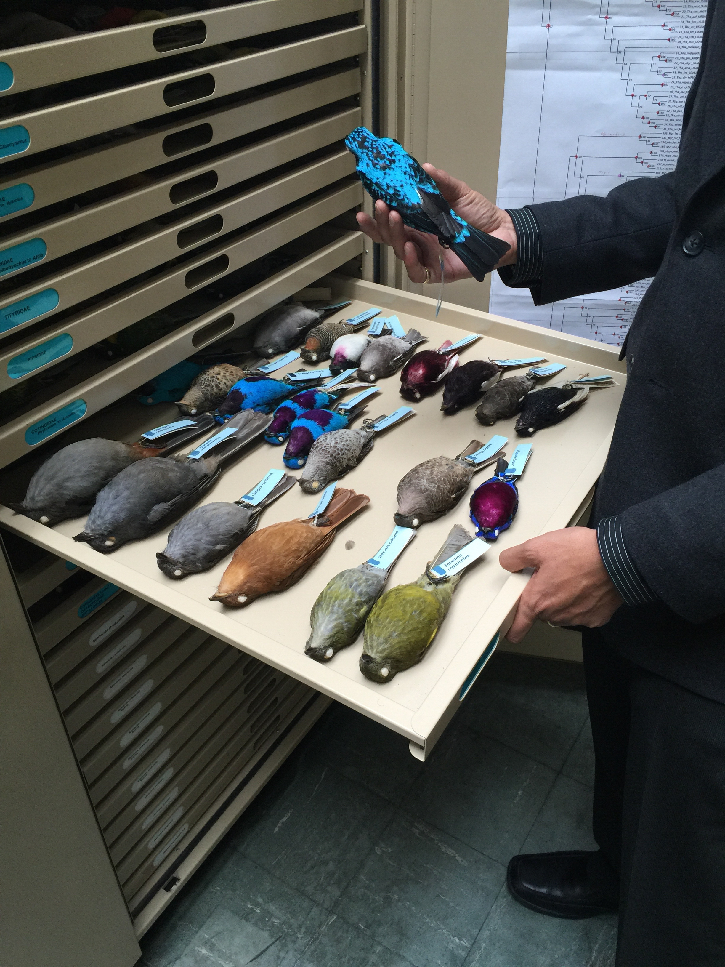 Study skins of birds (Louisiana State University, Museum of Natural Science)